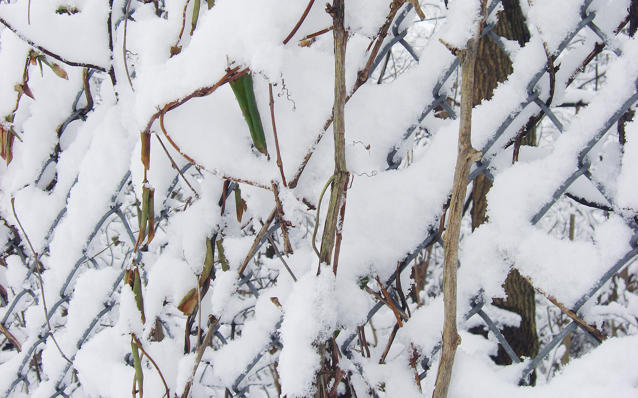 This photo shows a guard rail & some branches covered with snow.